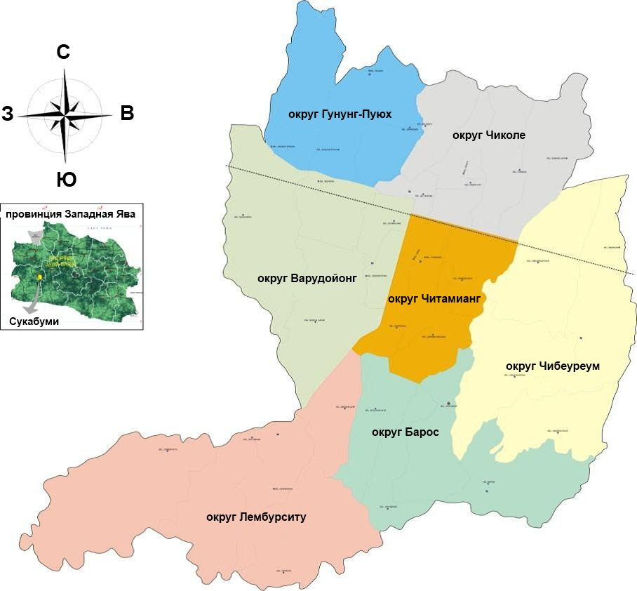 Map of Sukabumi